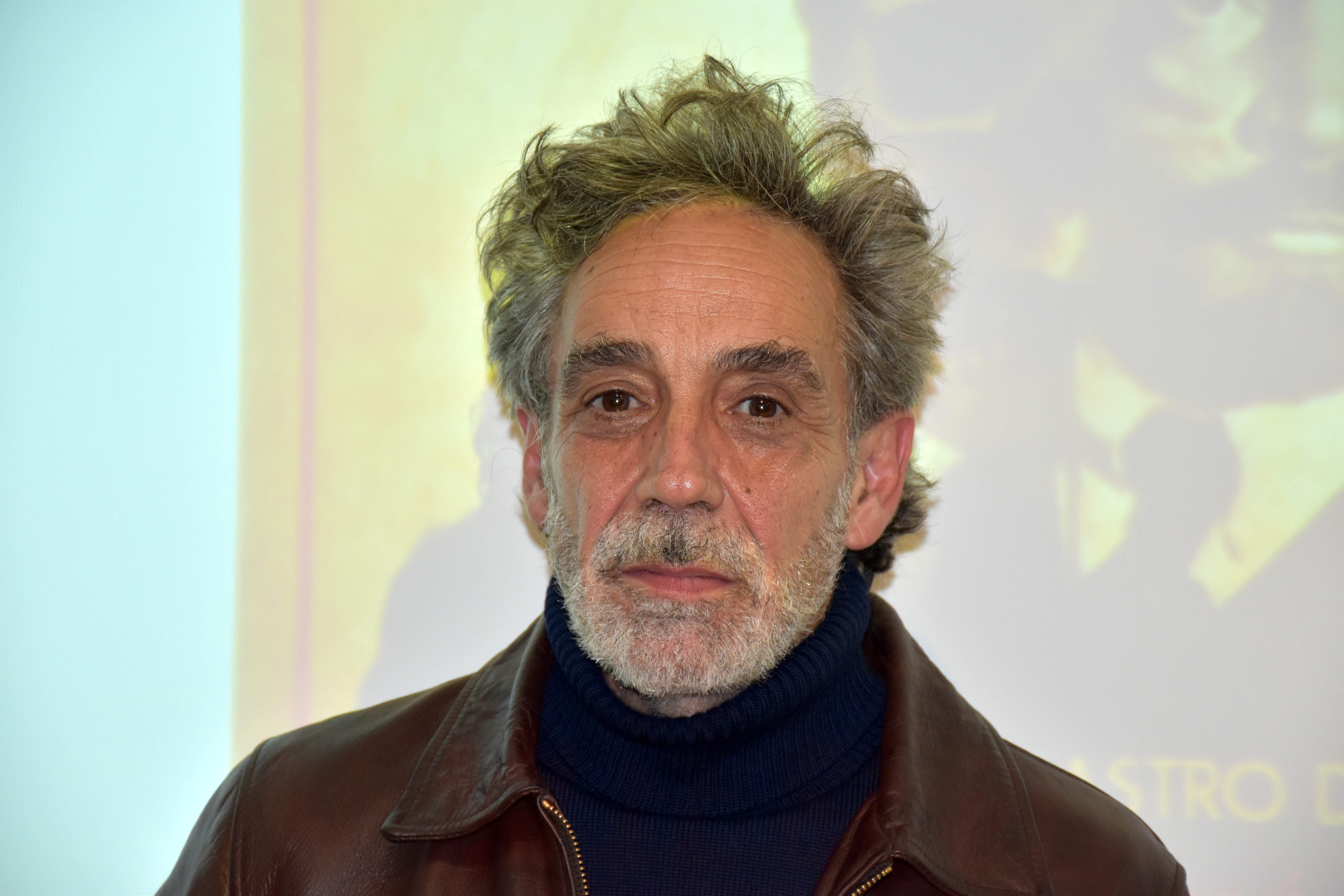 Carlos García-Alix. During the presentation of the book "My faith was lost in Moscow" by Enrique Castro Delgado, edition by Sergio Campos Cacho (Editorial Renacimiento).